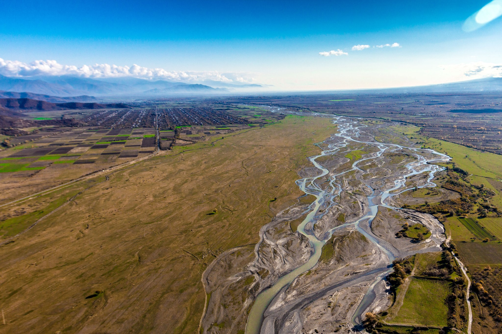 Alazani River, Akhmeta Municipality, Kakheti, Georgia